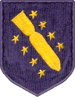 44th Bombardment Wing emblem. A copy of this emblem was down loaded from for use in my book “STRATEGIC AIR COMMAND An Organizational History” with the permission and approval of Marvin T. Broyhill, Webmaster.